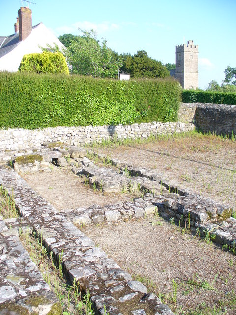 Caerwent - Roman remains